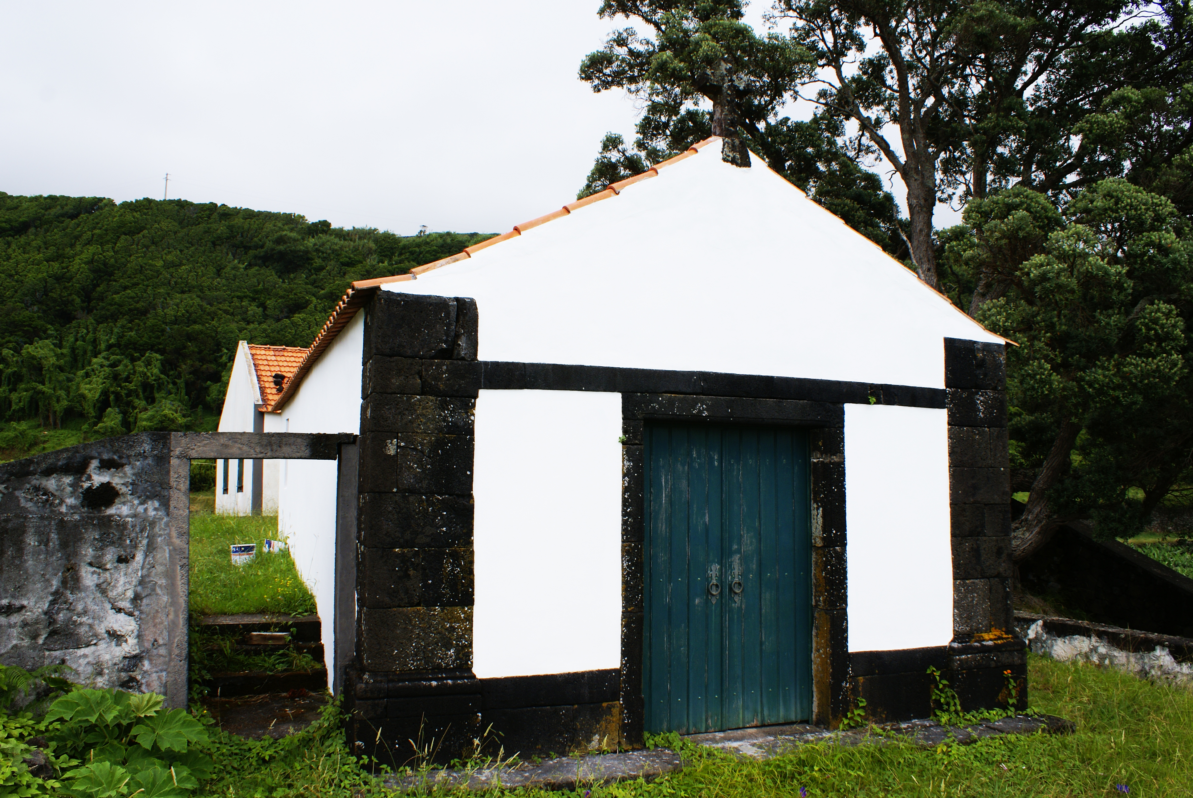 Front façade of the Chapel of Santa Catarina, Lajes do Pico, Pico (Azores), Portugal